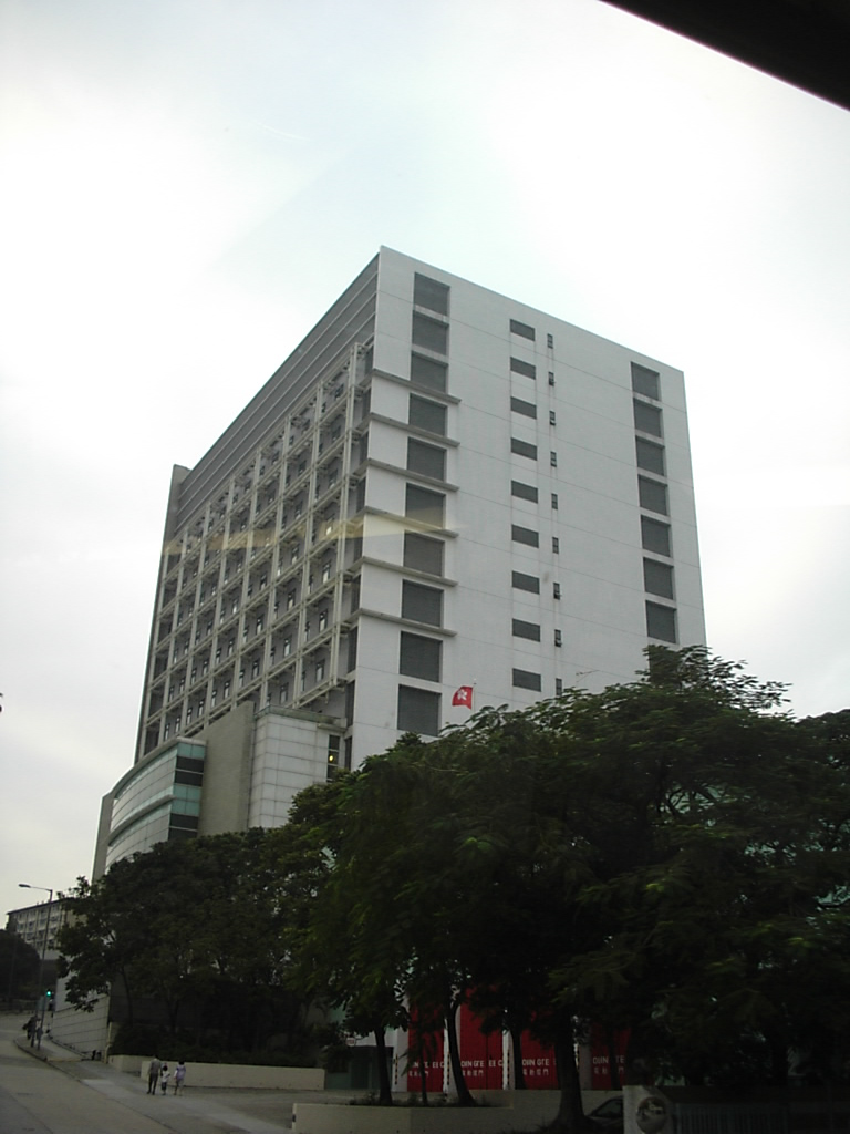 Public Health Laboratory Centre